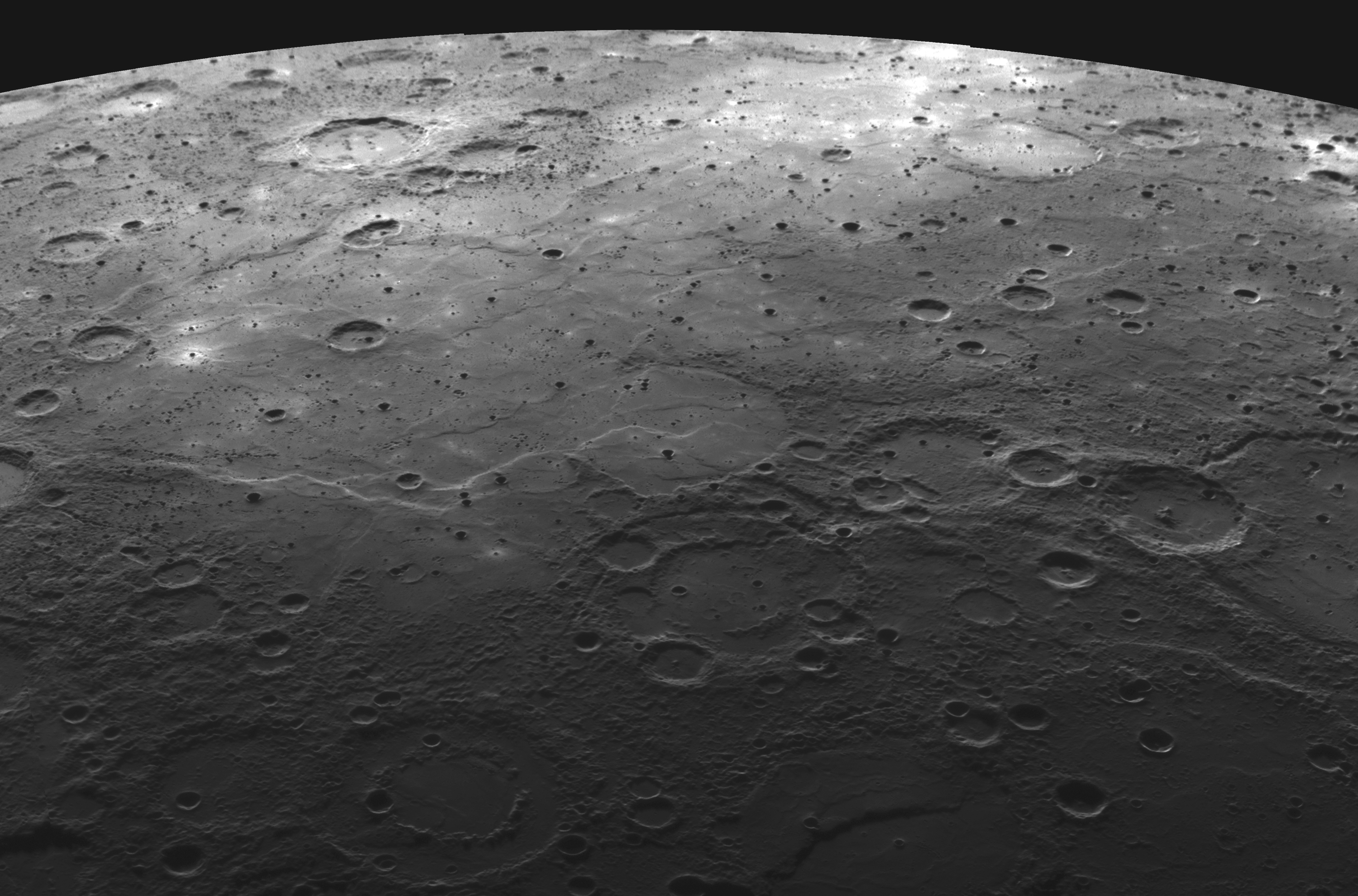 "MESSENGER images from the mission's first two Mercury flybys have shown that volcanism was an important process in shaping the surface of the Solar System's innermost planet. Motivated by these new insights gained from the MESSENGER data, as well as by the renewed interest in lunar exploration on the part of many nations, "Volcanism on the Moon and Mercury" has been selected as the subject of the upcoming Brown-Vernadsky Microsymposium 49, to be held March 21-22, 2009, in The Woodlands, Texas. The NAC mosaic shown above is being used as the background image for a poster that is advertising this scientific meeting. The mosaic, which shows the western limb of the planet with north to the right, was assembled from individual NAC images acquired as the spacecraft approached the planet during the second Mercury flyby, including three images previously released on October 8, 2008, October 28, 2008, and January 13, 2009. Visible in the mosaic are many lava-flooded craters and large expanses of smooth volcanic plains, which appear similar in texture to volcanically emplaced mare deposits on the Moon. At the microsymposium, scientists will gather to compare and contrast volcanism on the Moon and Mercury, including eruption styles and flux, the timing of volcanism, lava compositions and structures, and linkages between volcanism and the impact history and interior evolution of the two bodies."